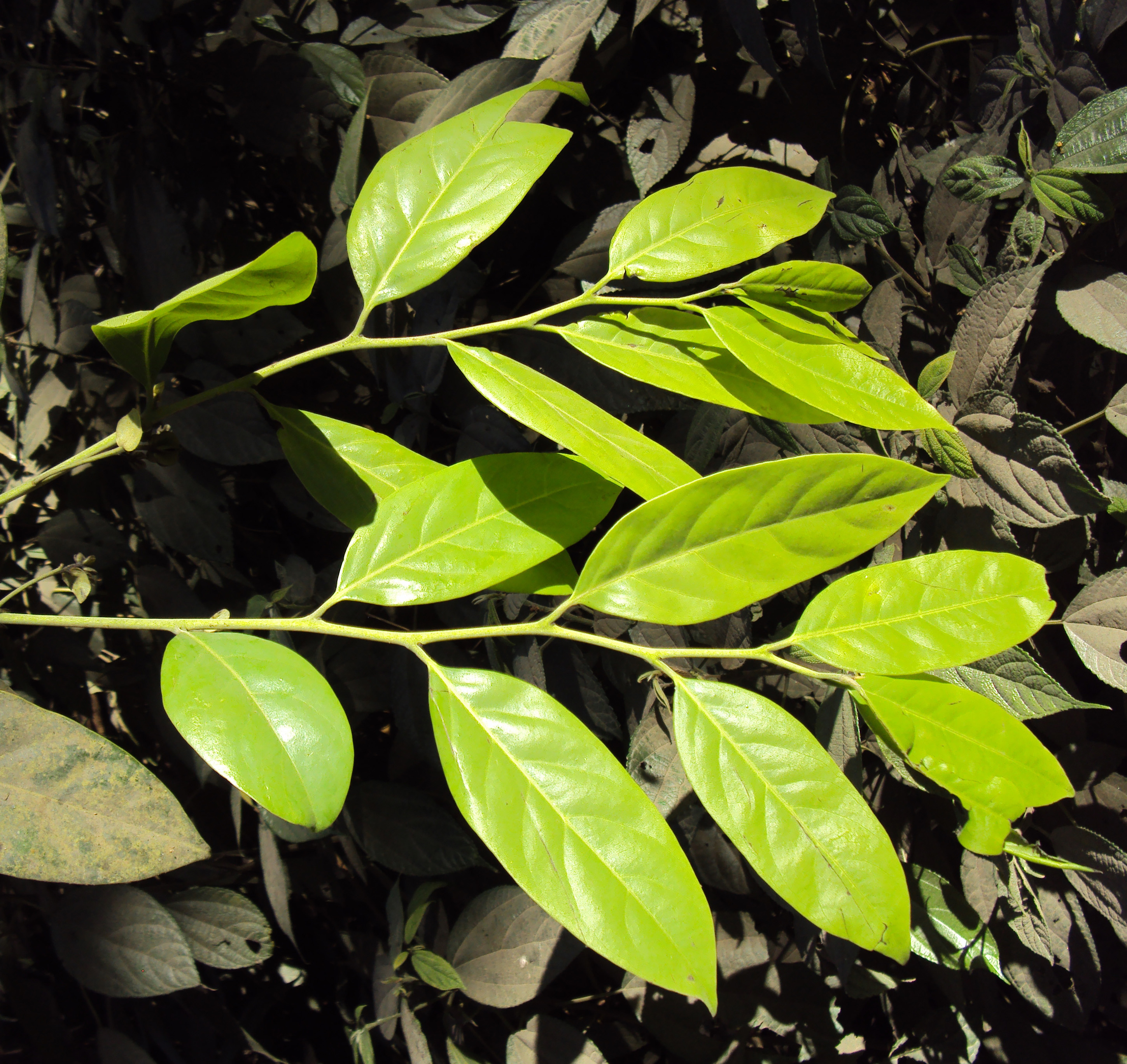 Diospyros paniculata